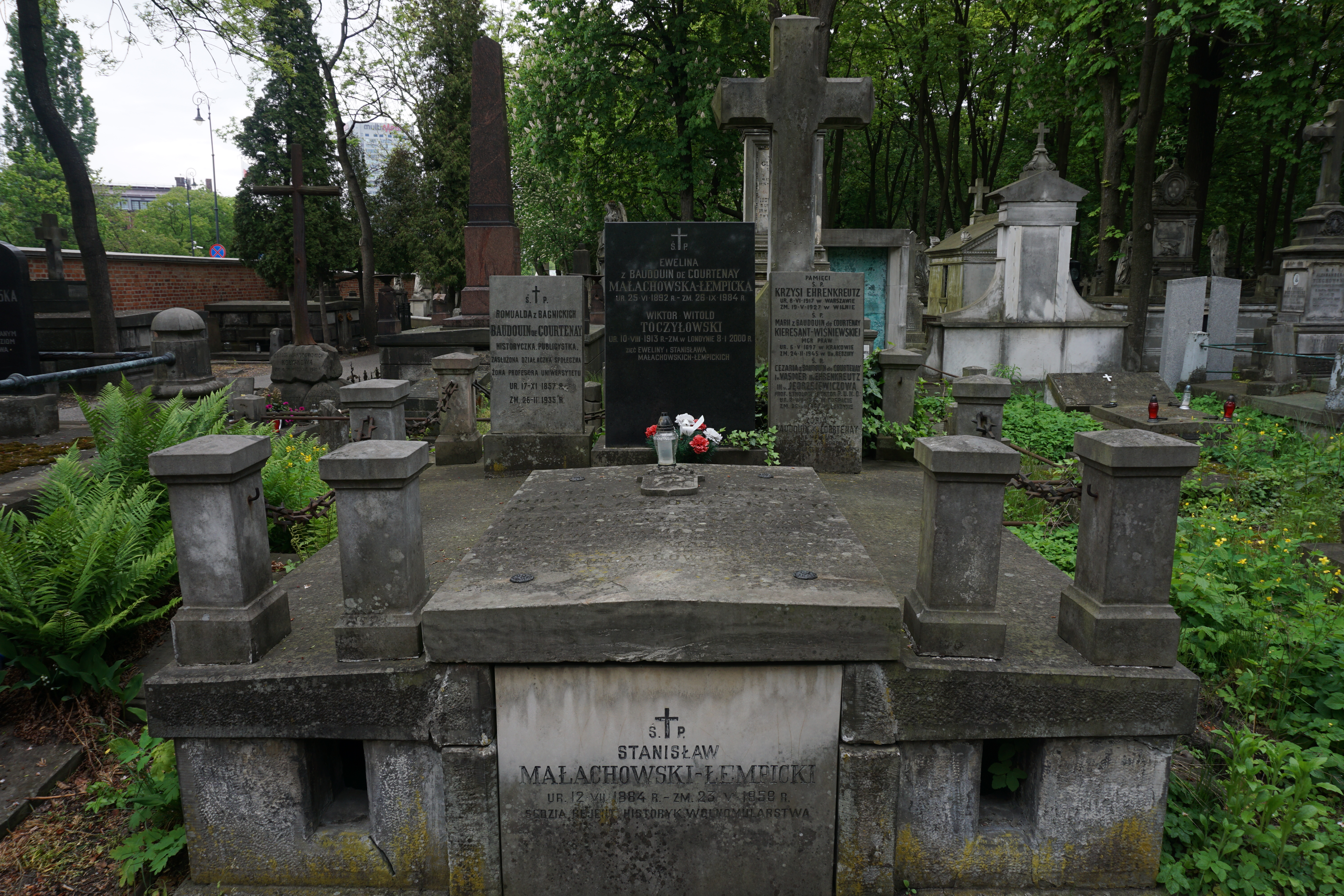 The grave of Romualda Baudouin de Courtenay at the Powązki Cemetery (section 21, row 4, grave 4, 5)